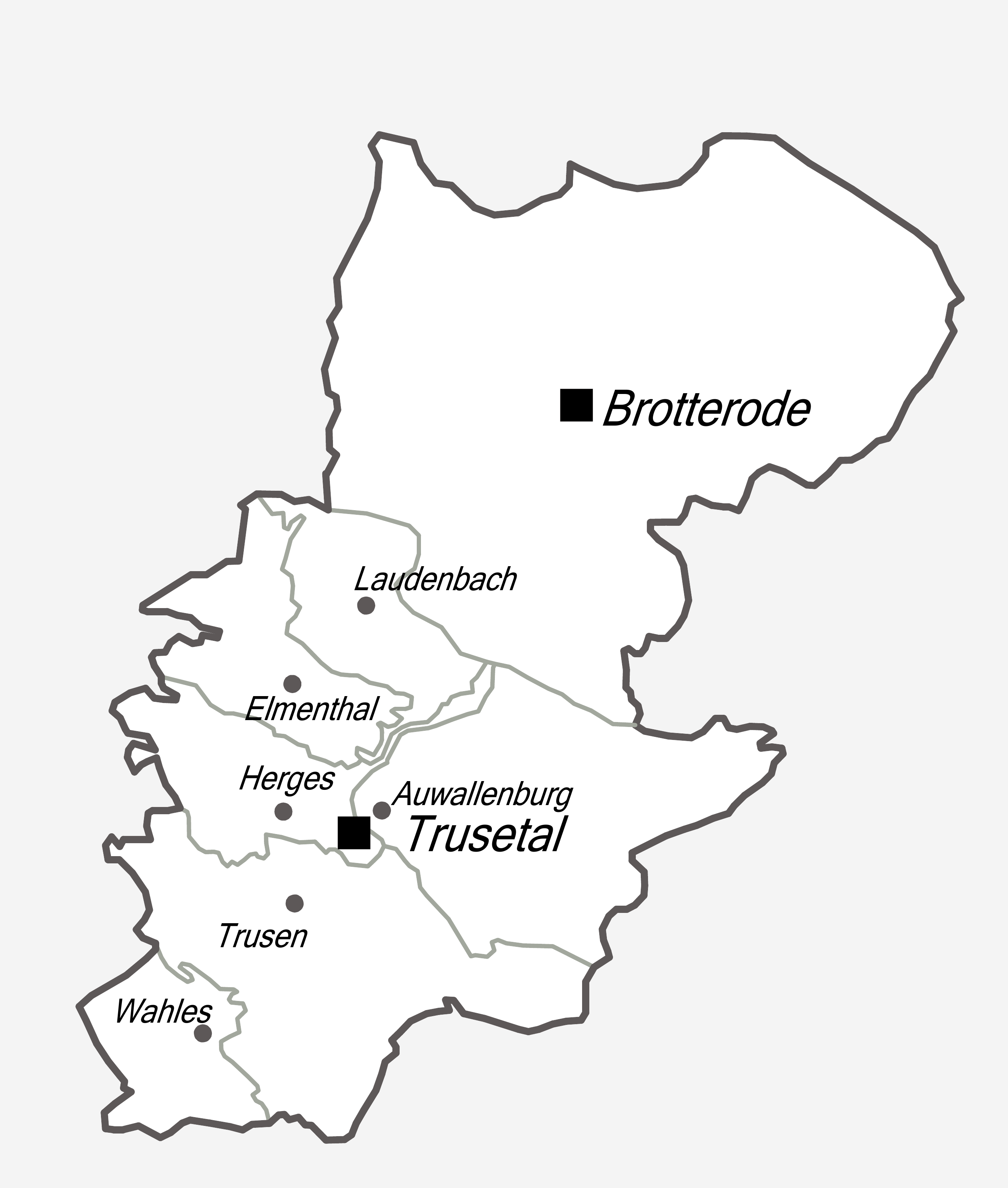 Districts of Brotterode-Trusetal